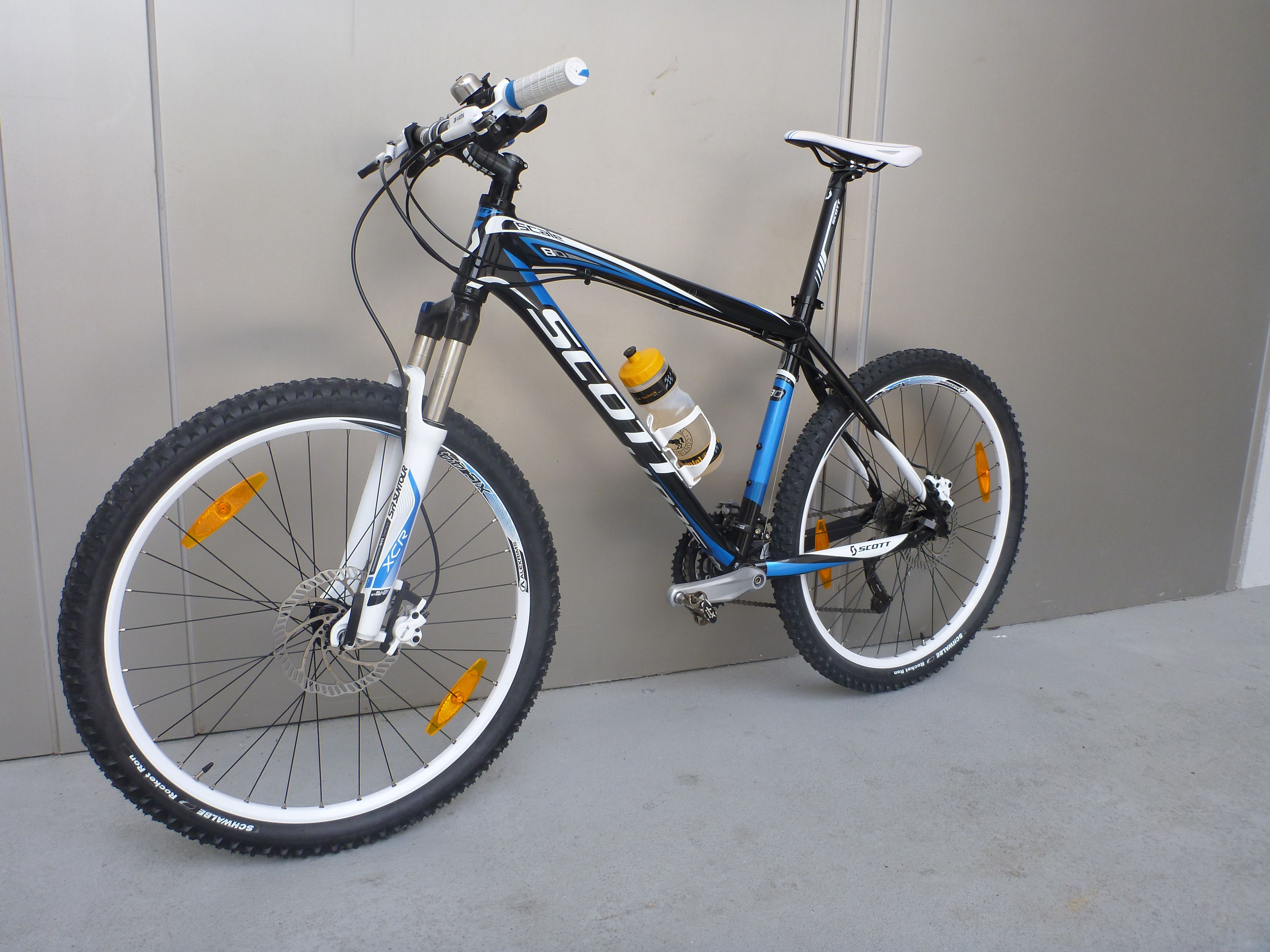 Moutain Bike Scott Scale 80, 2011